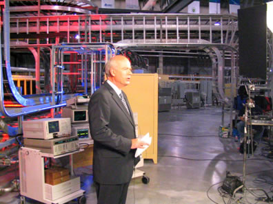 Peter Mansbridge opens CBC's The National on top of the Canadian Light Source synchrotron, October 21st 2004